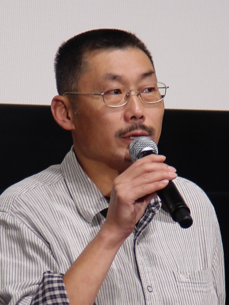 Chinese film director He Ping at the Tokyo International Film Festival 2009